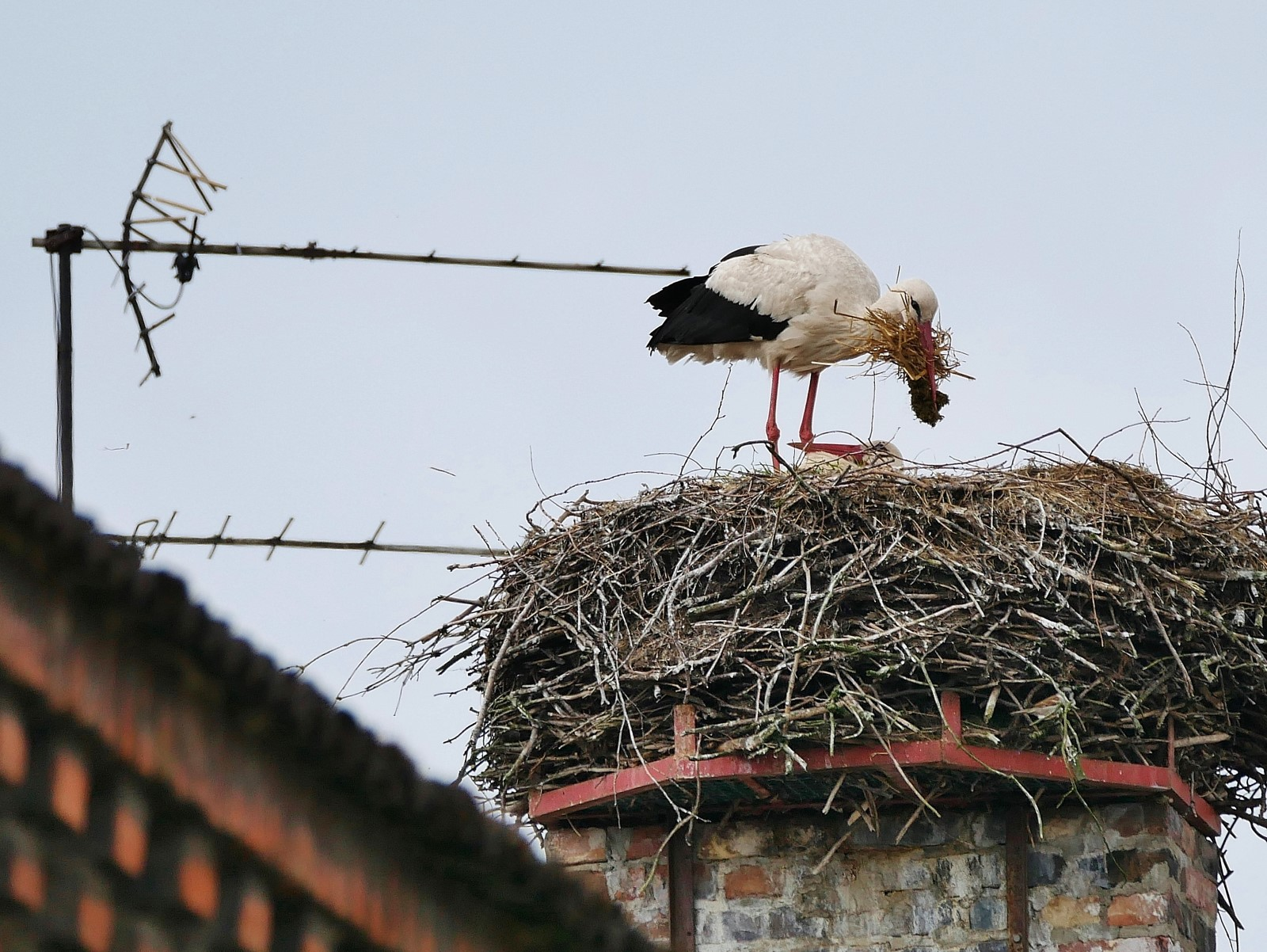 The nest of the White Stork and Nest building activity (Ciconia ciconia), Photo: Elke Brüser